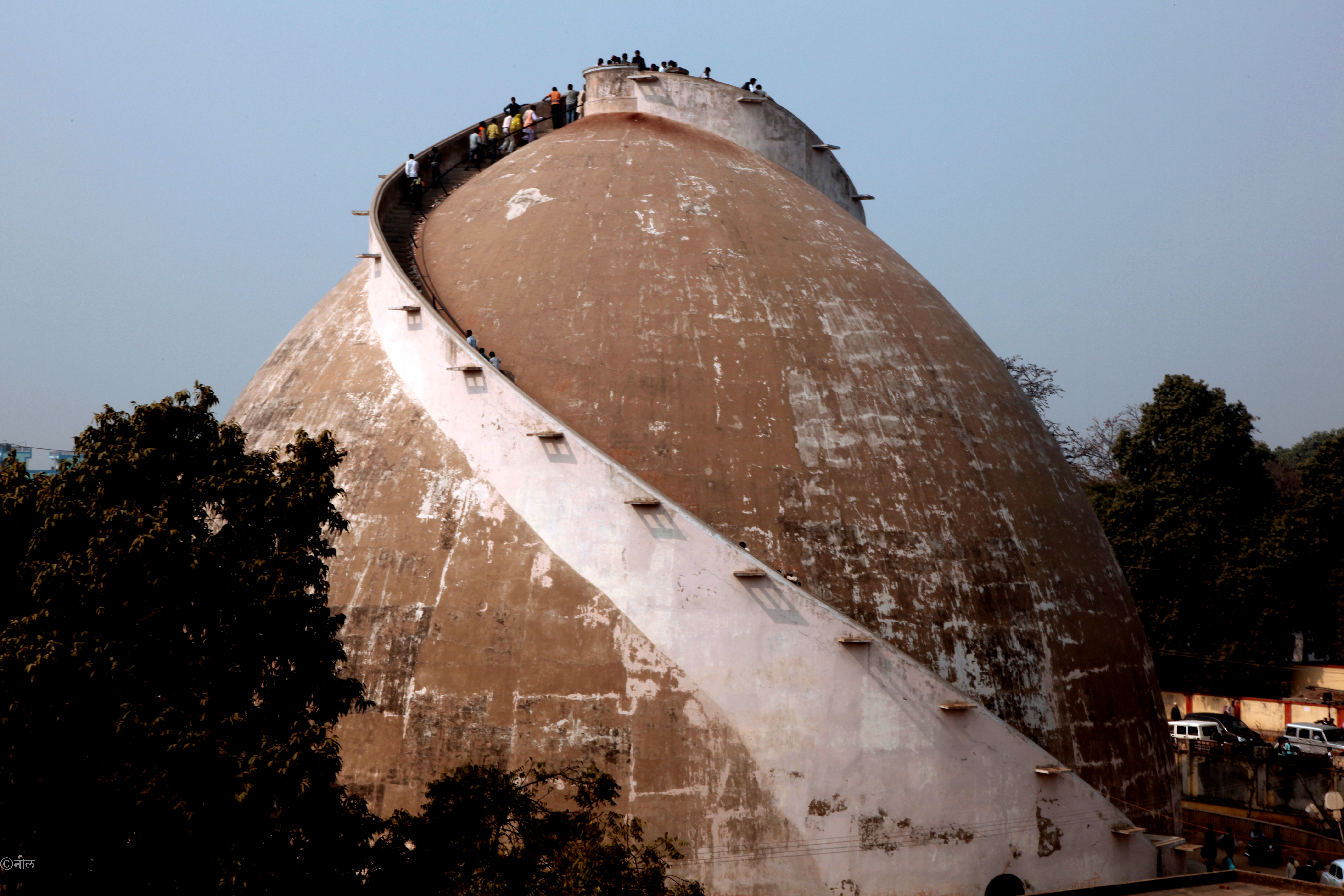 Golghar, Patna